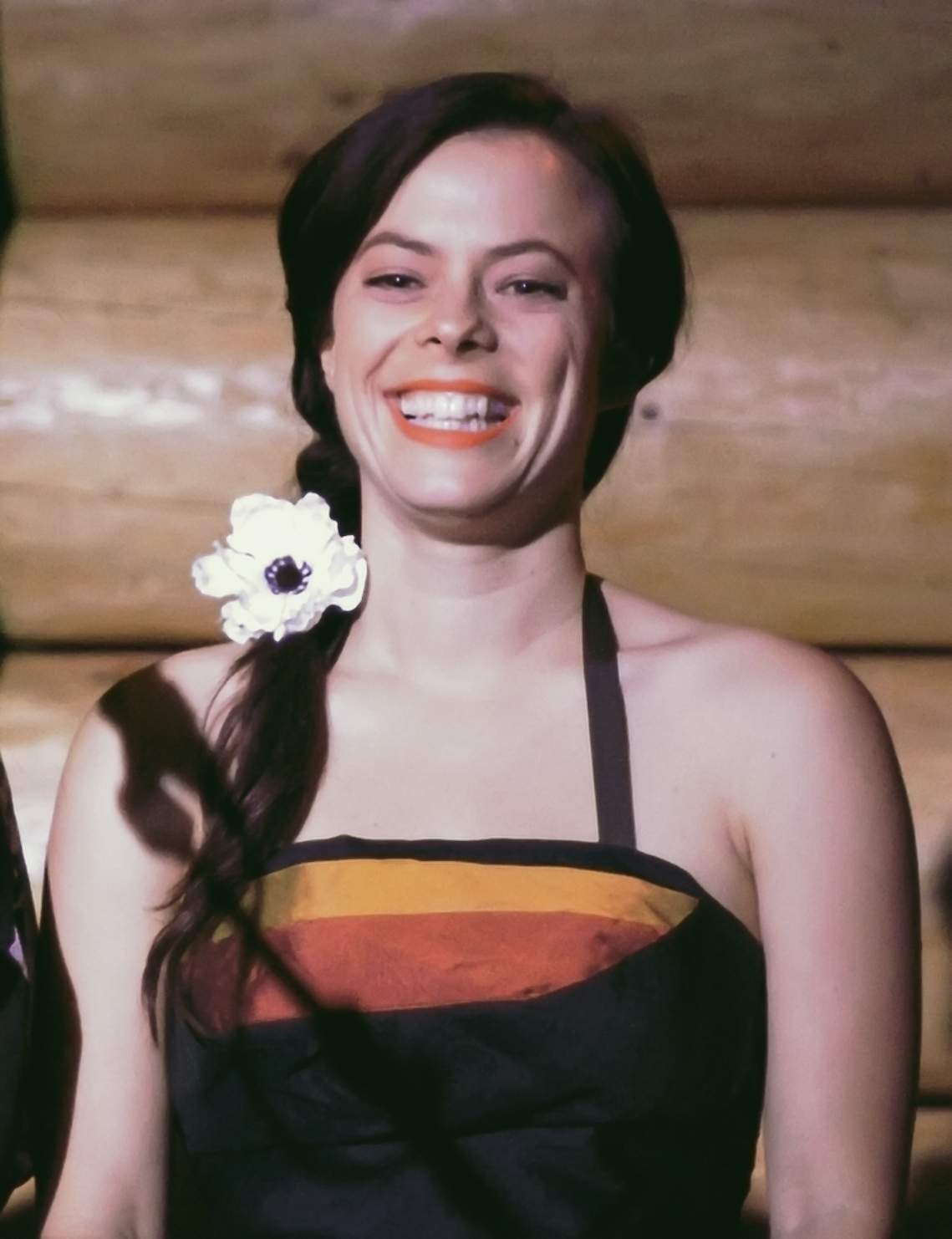 Lenka, australian singer. Hotel Cafe Tour at Doug Fir in Portland, Oregon